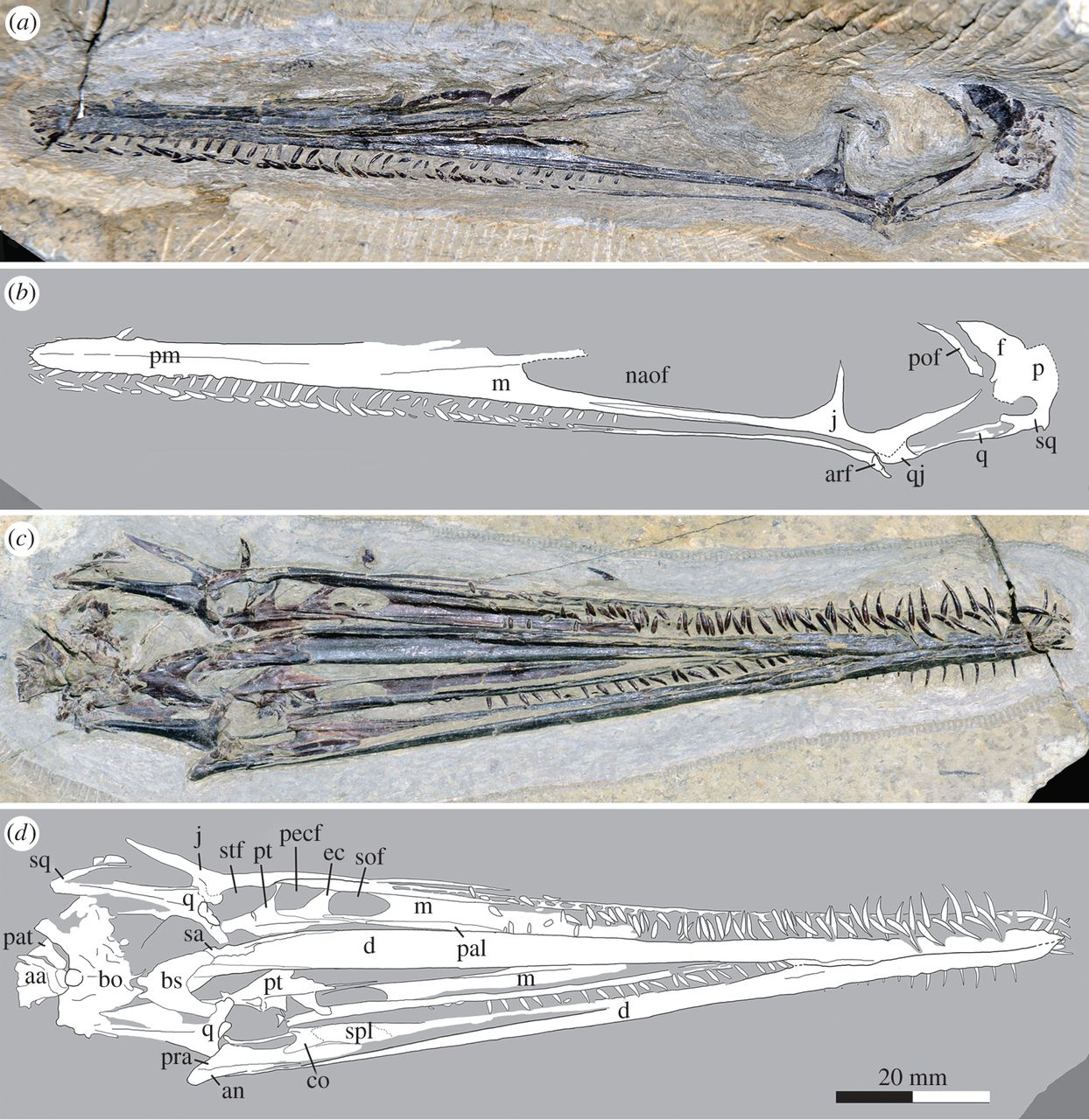 Figure 2. Holotype of Liaodactylus primus gen. et sp. nov. (PMOL-AP00031): photographs and line drawings of the nearly complete skull with mandibles in left lateral (a,b), and palatal (c,d) views. aa, atlas-axis complex; an, angular; arf, articular facet; bo, basioccipital; bs, basisphenoid; co, coronoid; d, dentary; ec, ectopterygoid; f, frontal; j, jugal; m, maxilla; naof, nasoantorbital fenestra; p, parietal; pal, palatine; pat, proatlas; pecf, pterygo-ectopterygoid fenestra; pm, premaxilla; pof, postfrontal; pra, prearticular; pt, pterygoid; q, quadrate; qj, quadratojugal; sa, surangular; sof, suborbital fenestra; spl, splenial; sq, squamosal; stf, subtemporal fenestra.